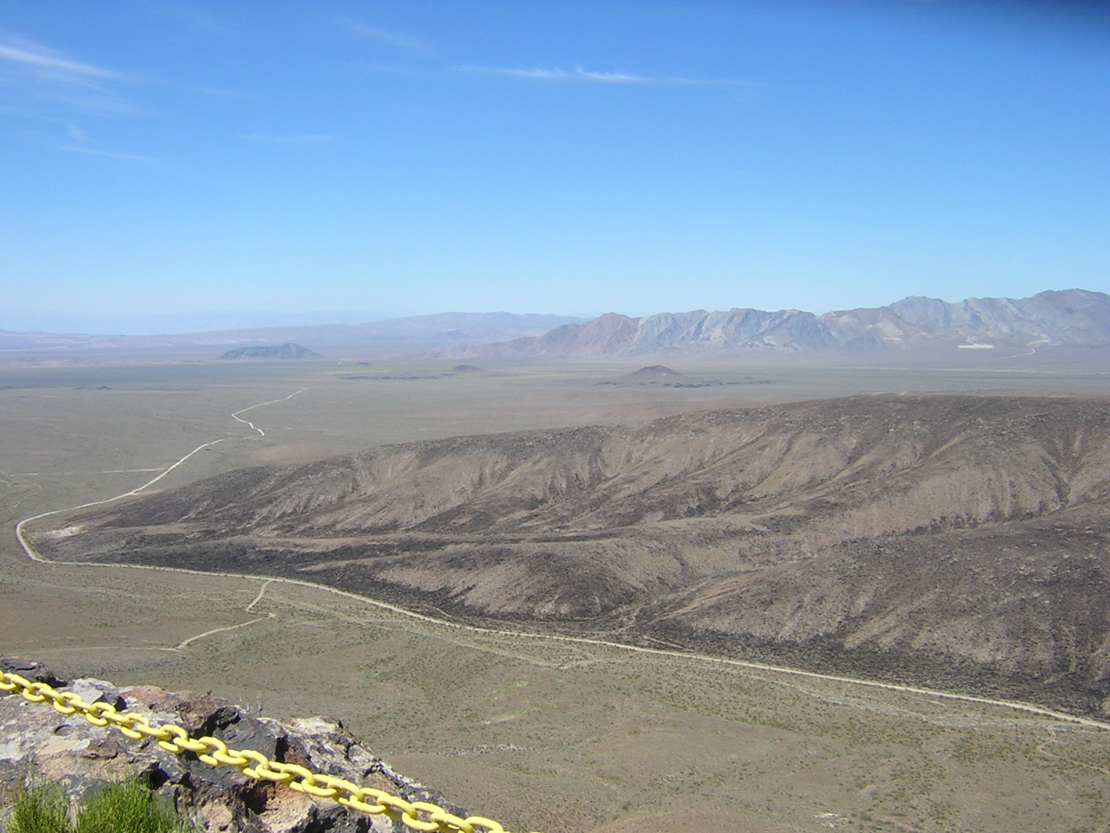 I took this picture atop Yucca Mountain in Nye County, Nevada on June 7, 2005. Looking west atop Yucca Mountain towards Beatty and Death Valley